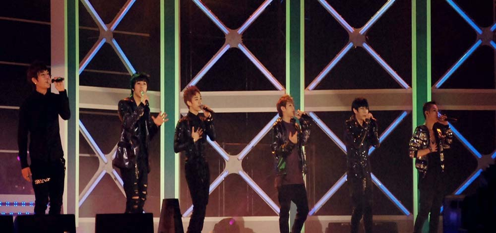 BEAST (Korean Band) at Lotte Giants 2010 Special Concert, Korea